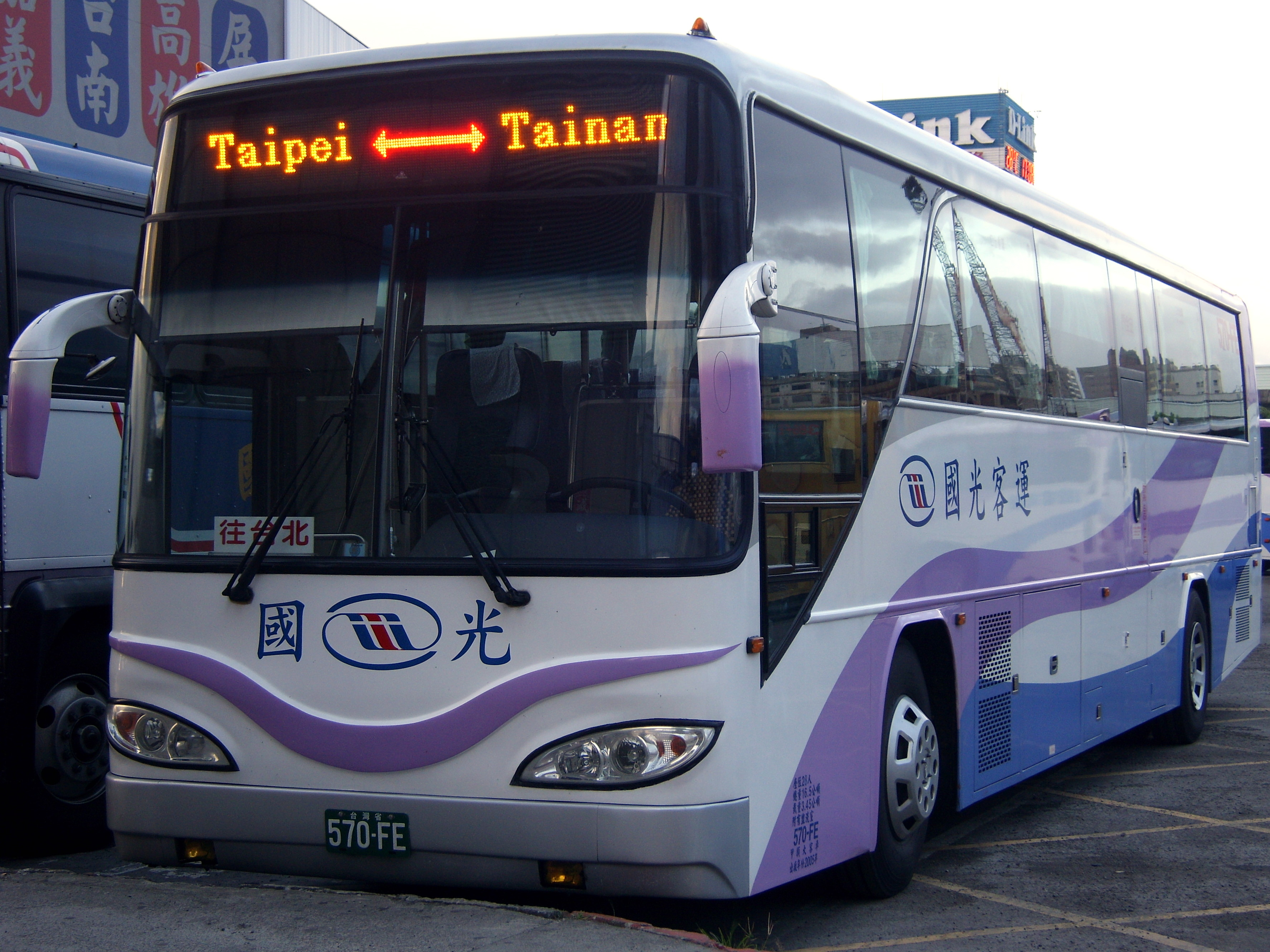 Kuo-Kuang Motor Transport Company Ltd. BH120 "Kuo-Kuang Holiday" Bus.